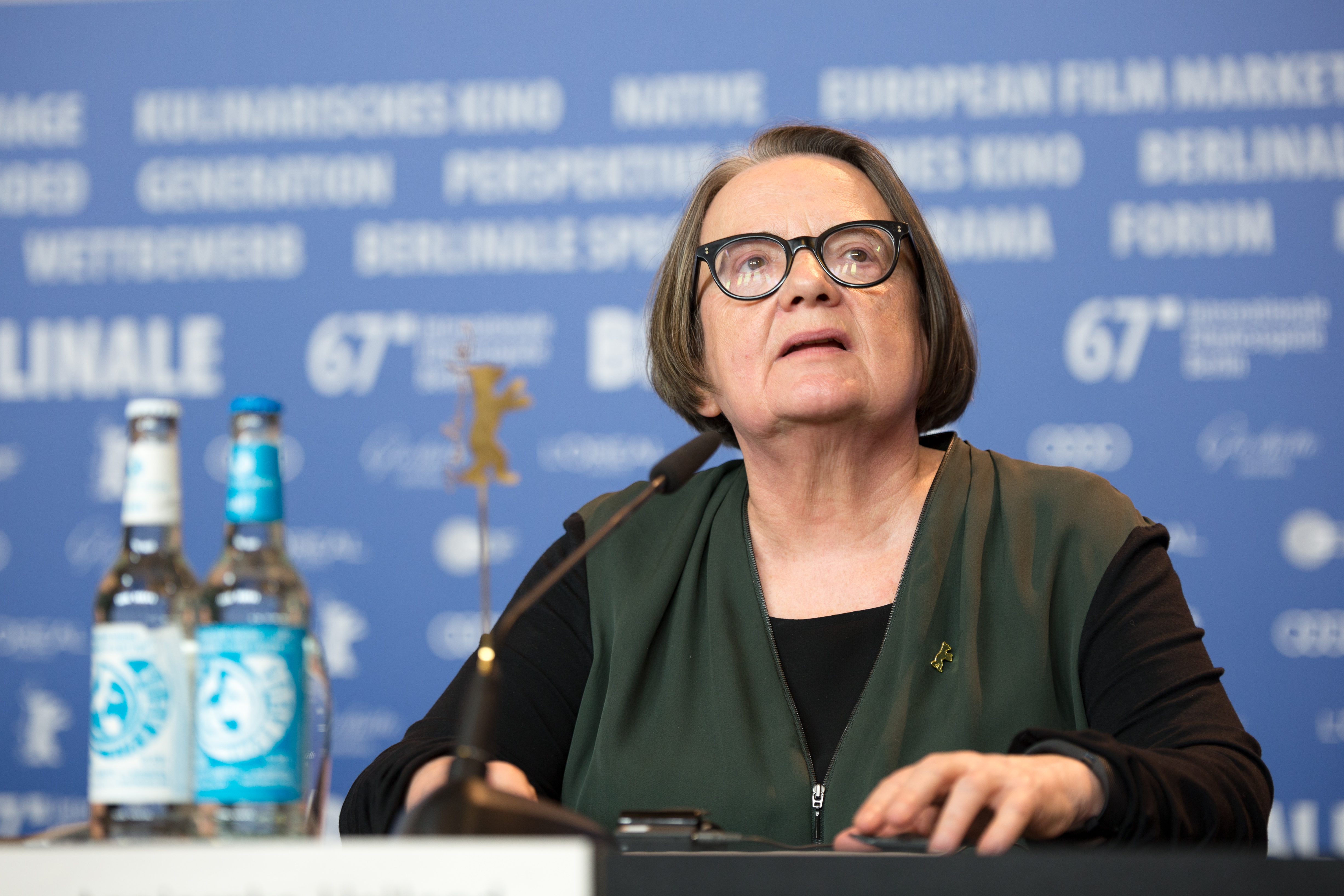 Director Agnieszka Holland at the presentation of the polish movie Spoor at the Berlinale 2017